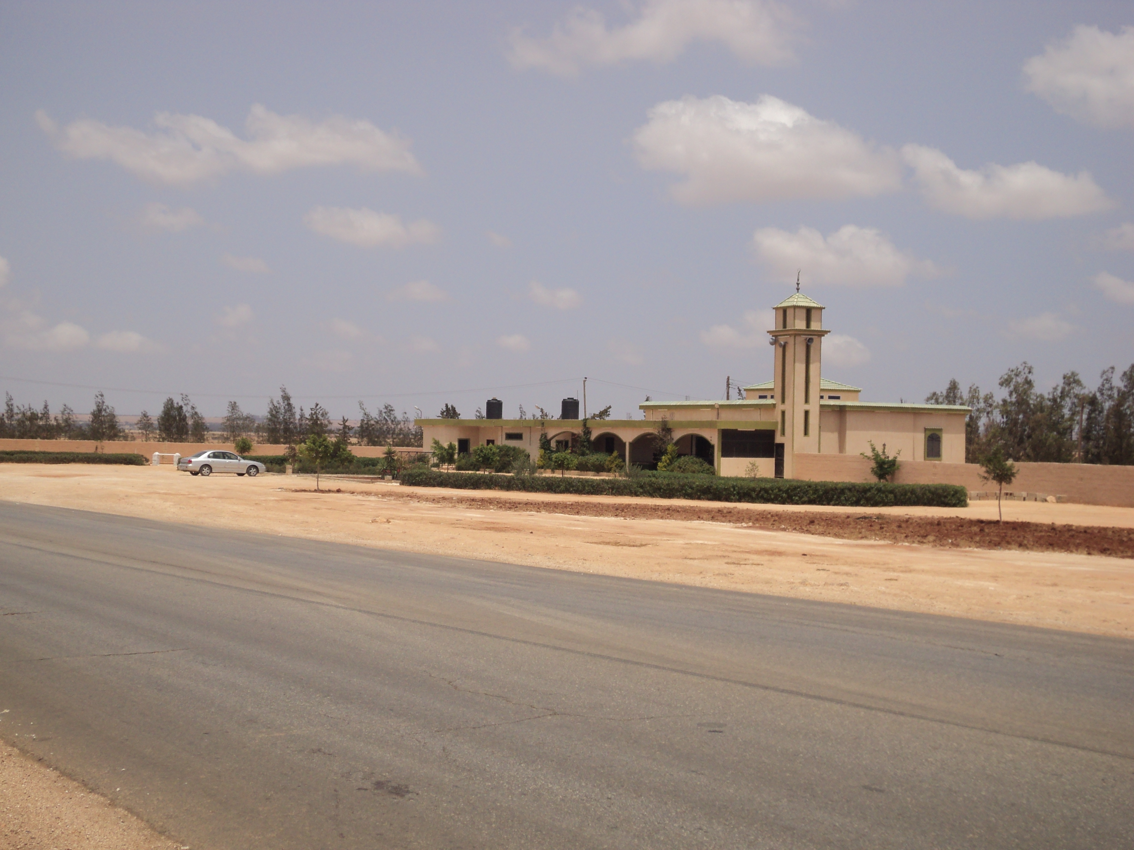 A mosque near the Libyan city of Al Marj, by Al Marj Tacnis road.